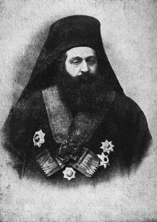 Ioakeim Efthivoulis (1855-1920): Metropolitan of Ephesus